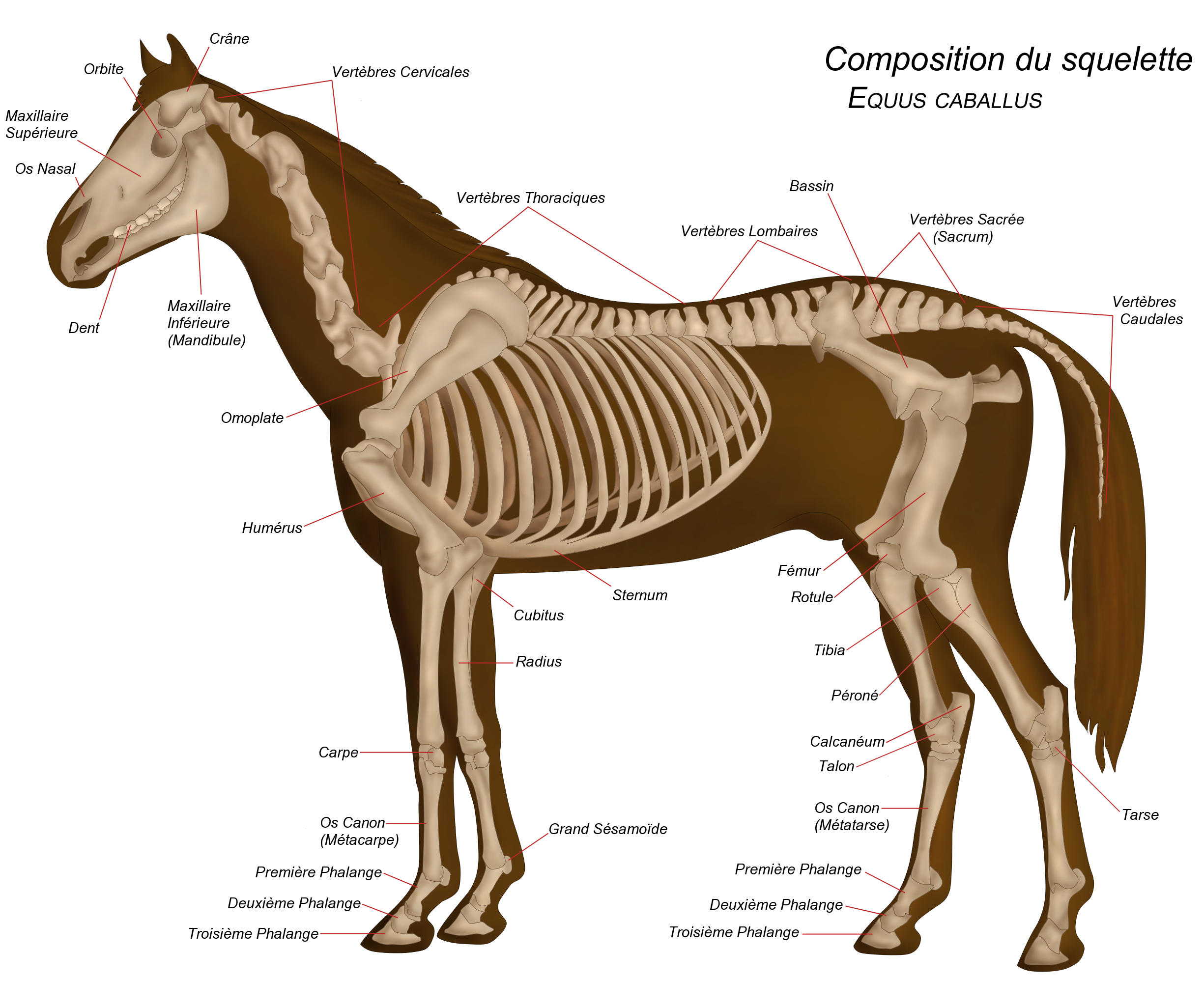 Horse's skeleton translated in french